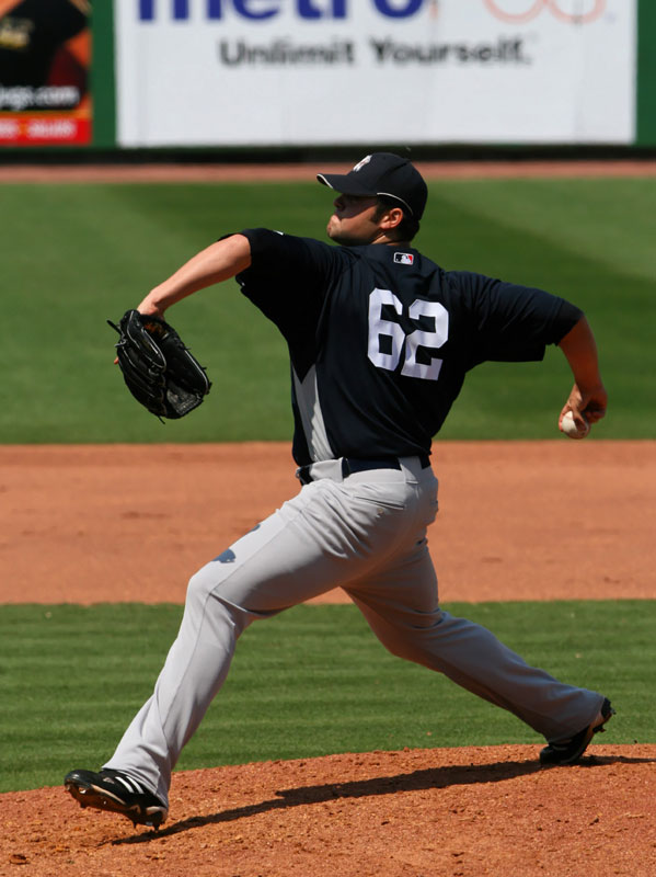 Joba Chamberlain, spring training 2008 Original upload log 23:32, 8 April 2009 . . BubbaFan . . 599×800 (78 KB)